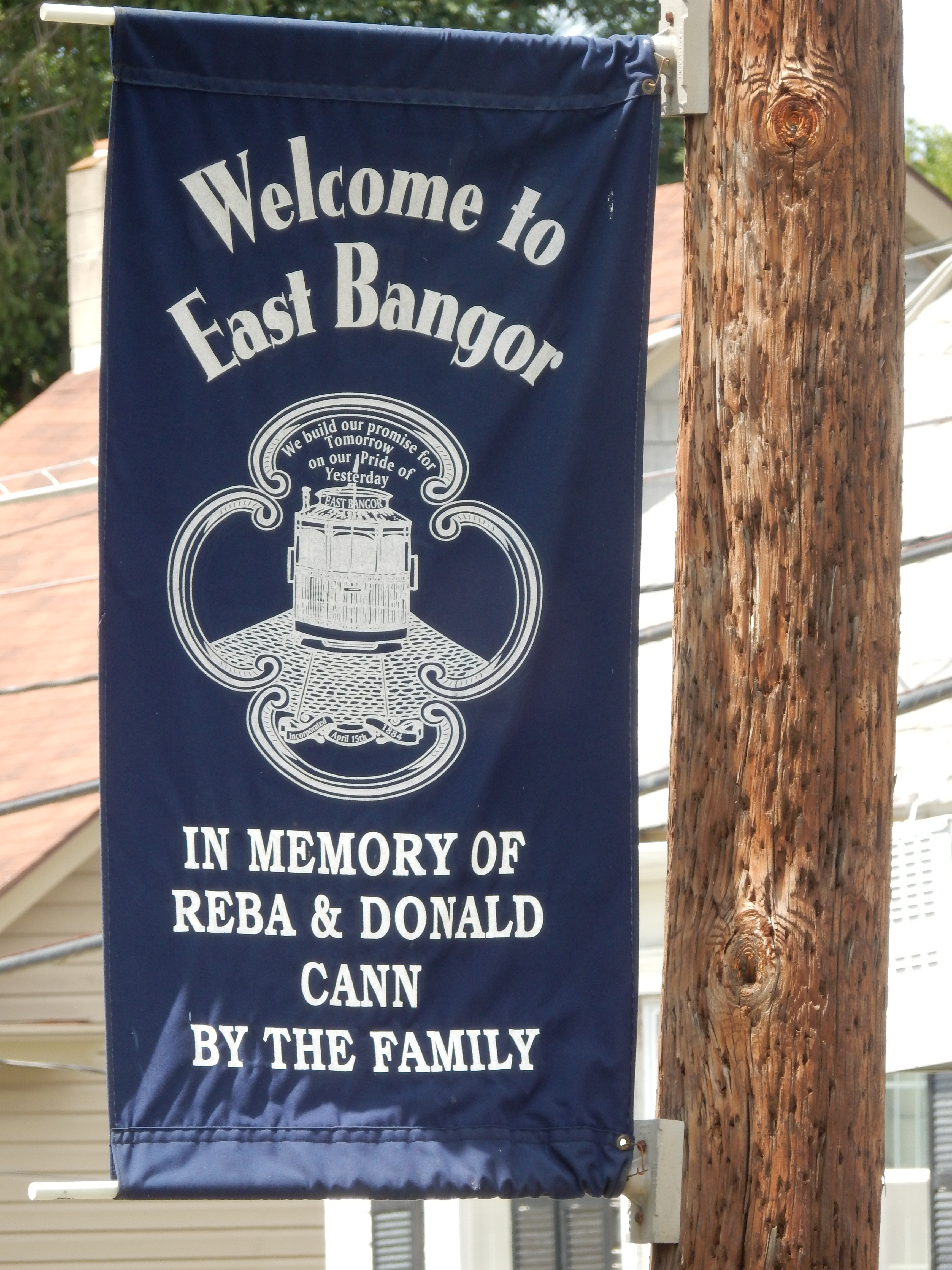 Welcome Sign on W. Central Ave., East Bangor, Northampton County, Pennsylvania.